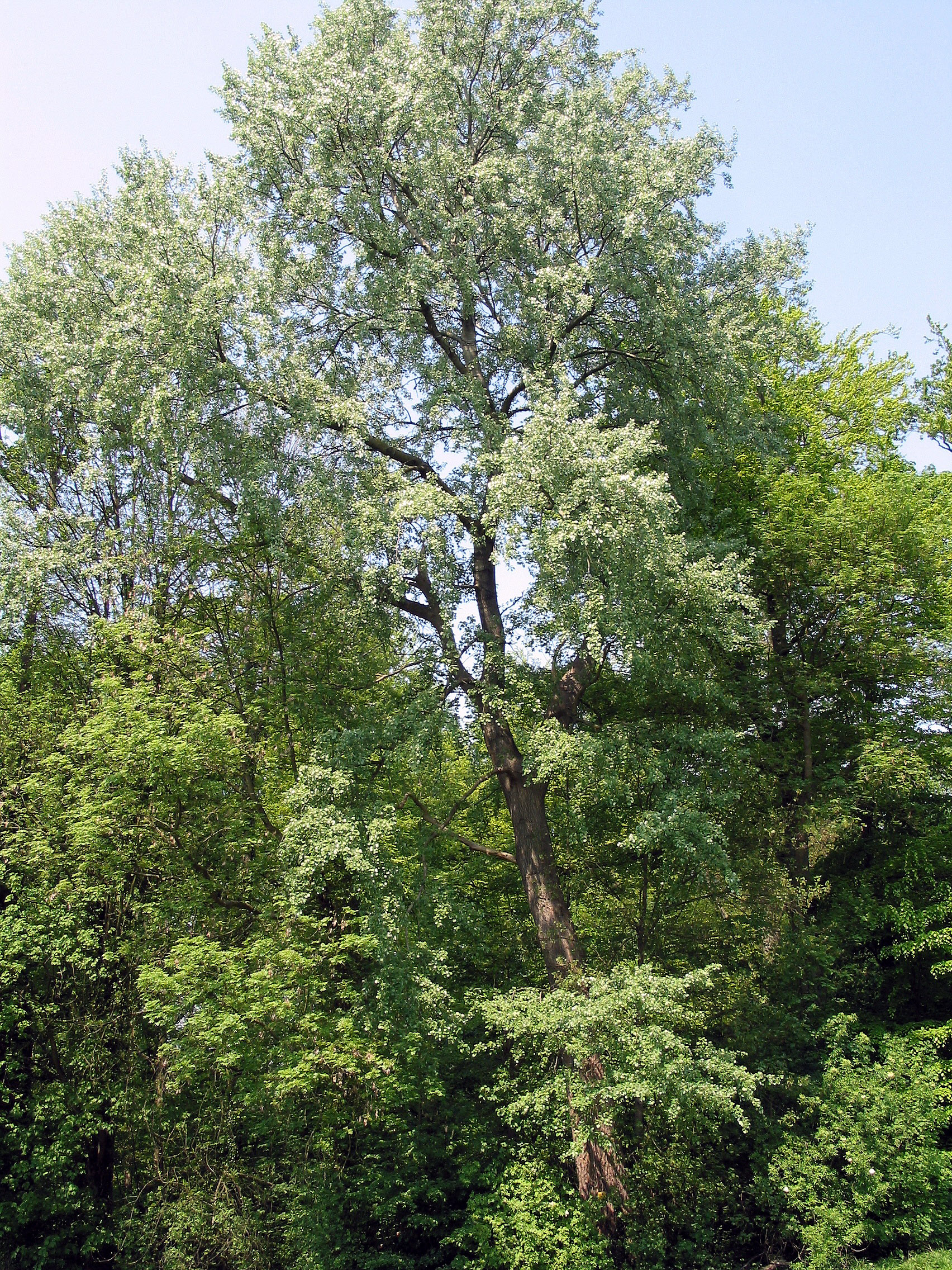 Grey poplar (Populus × canescens) Circumference at 1m50: 363 cm - (2007) Precise location : National Botanic Garden of Belgium - Meise (Belgium).